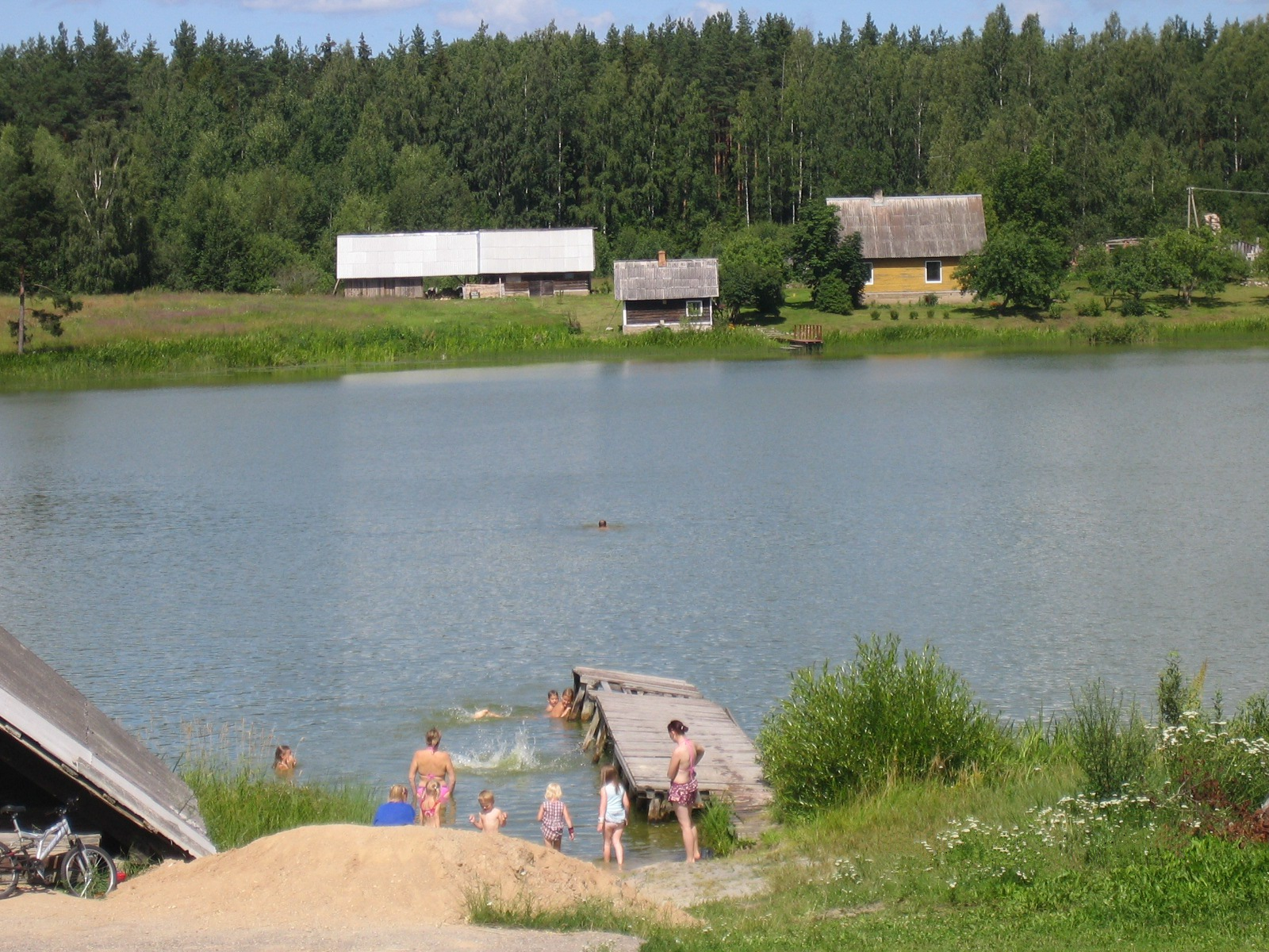 Orava lake